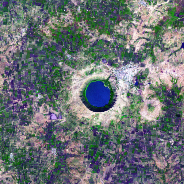 Lonar impact crater in India